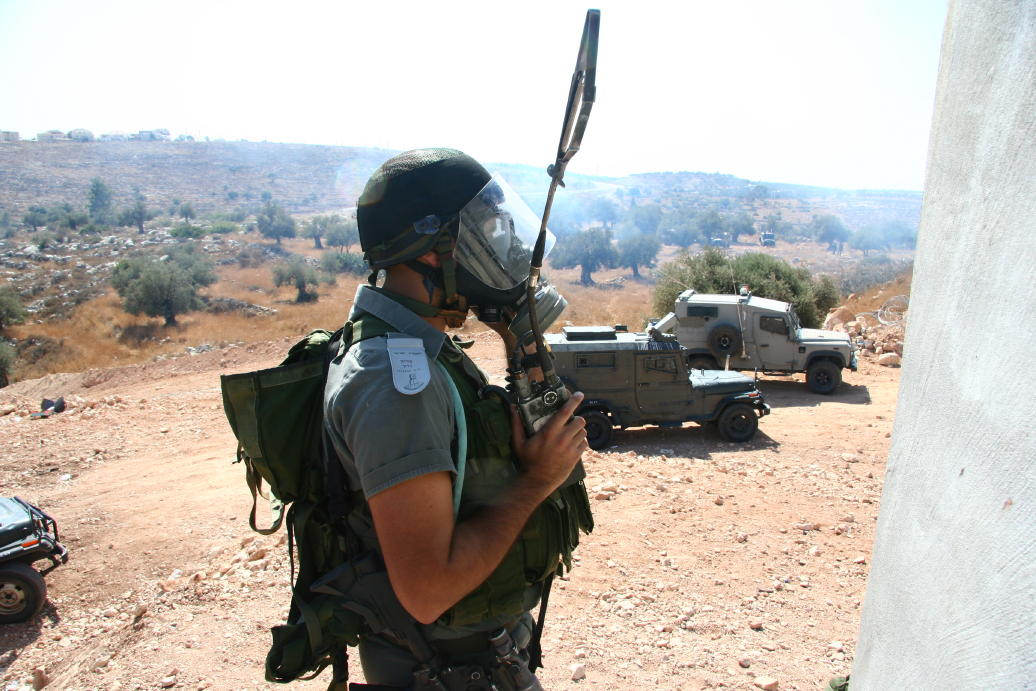 Border police of Israel.